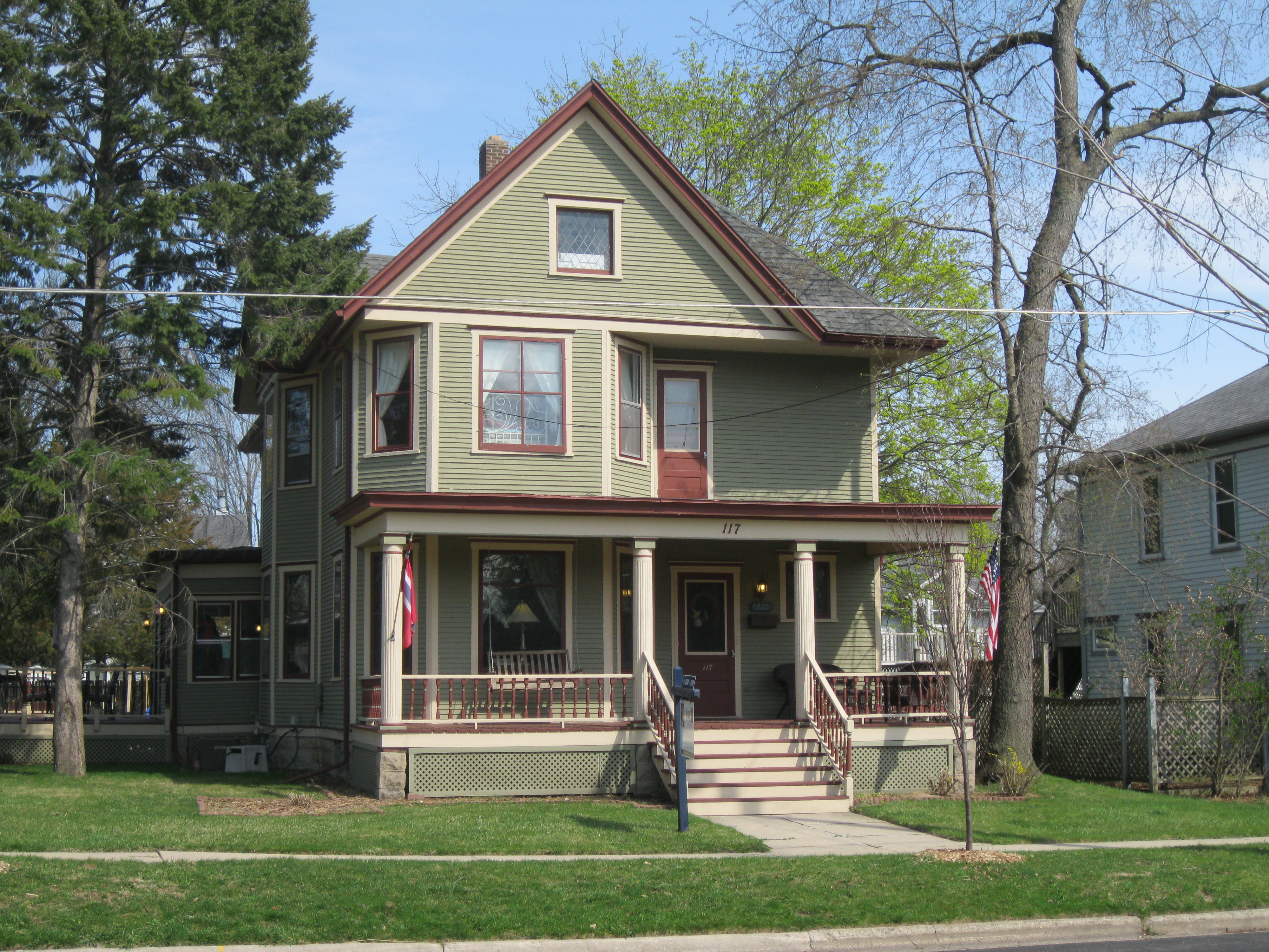 House at 117 South Franklin Street in the East Side Historic District in Stoughton, Wisconsin.